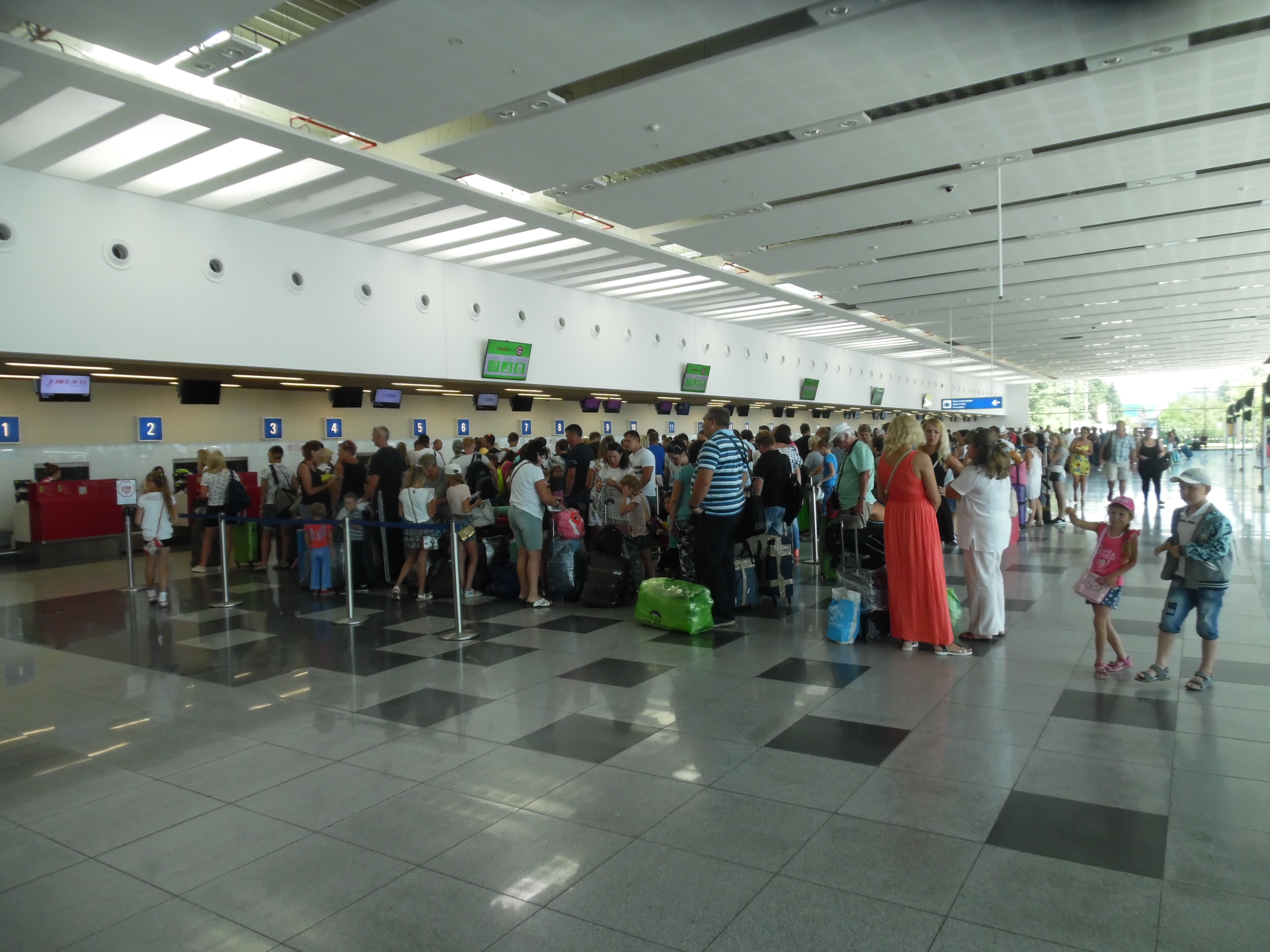 Burgas Airport, the hall of check inn, july 2016